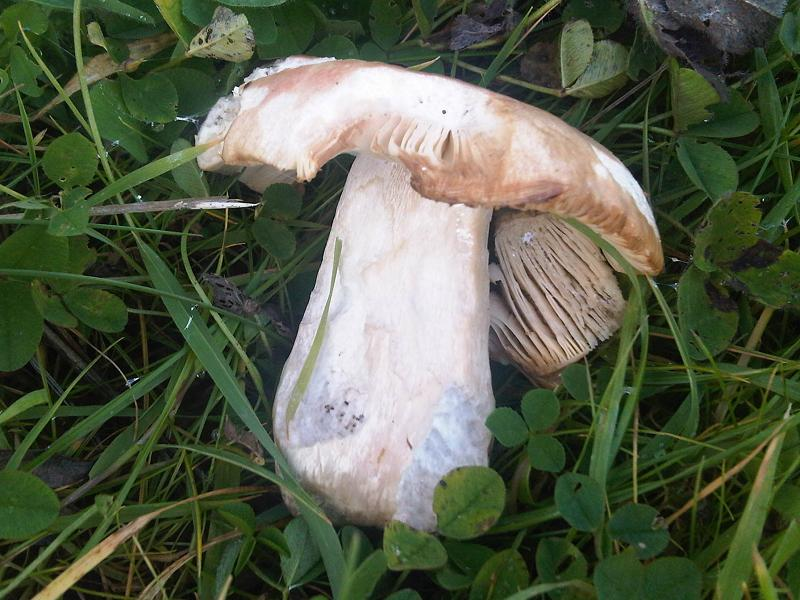 Russula grisea in WWT London Wetland Centre, England.